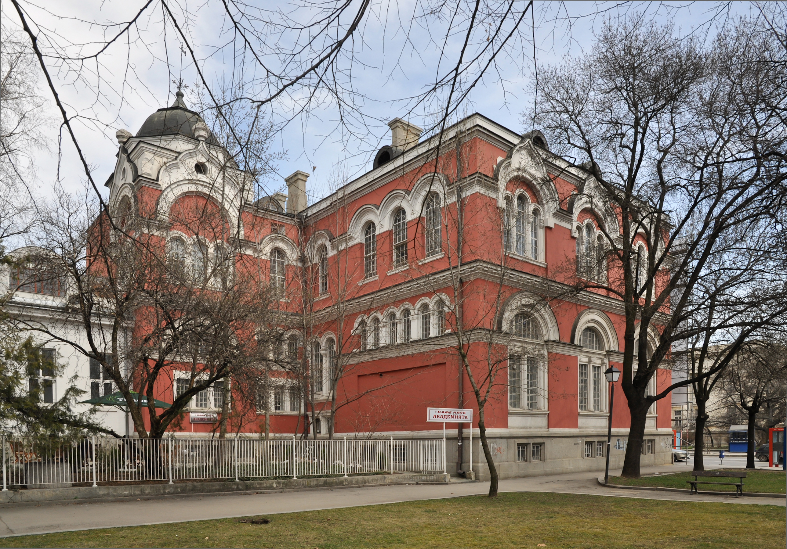 National Academy of Arts in Sofia, Bulgaria.